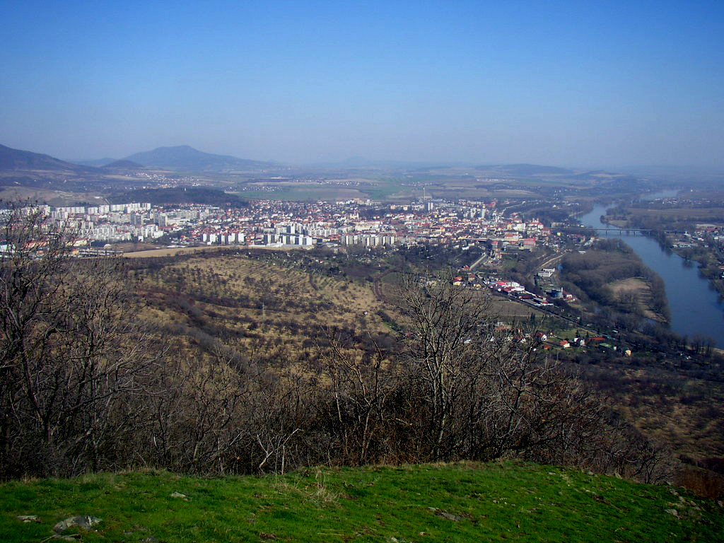 Litomšřice (town in northwest Bohemia, Czech Republic) as seen from the Radobýl Hill. In background on the left side hills of České středohoří Mountains, on the right edge the Labe (Elbe) River . photo taken by Miaow Miaow in April 2005 change of quality of image (hope to improve)